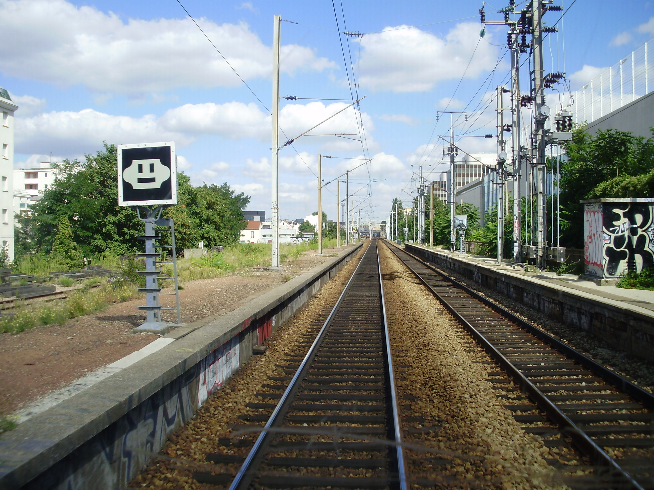 Old halt of Courbevoie Sport, in Courbevoie, Hauts-de-Seine, France (platforms formerly used, seen from the cab of a train towards Paris-Saint-Lazare.)